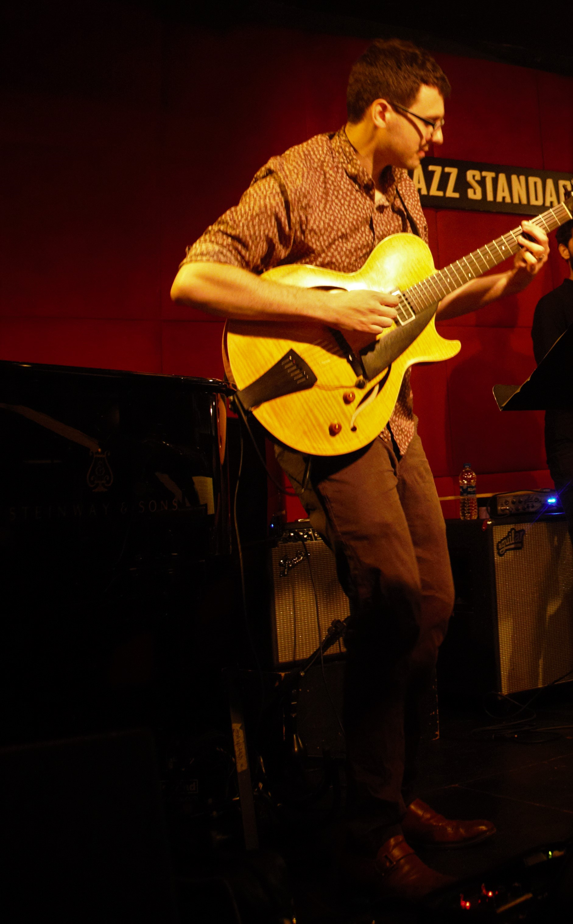 Alex Goodman playing guitar at the Jazz Standard in New York City